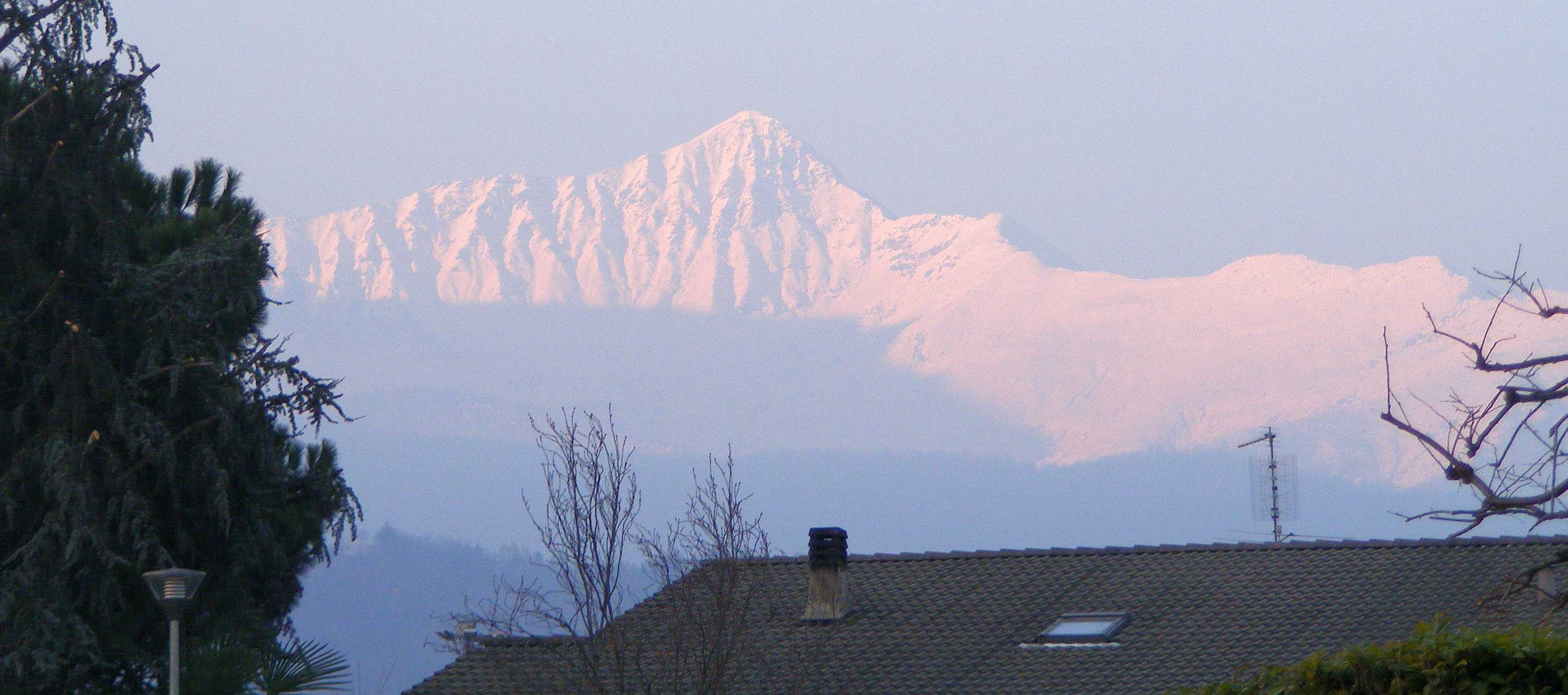 Mount Frioland at dawn from Pinerolo's plains (TO, Italy)